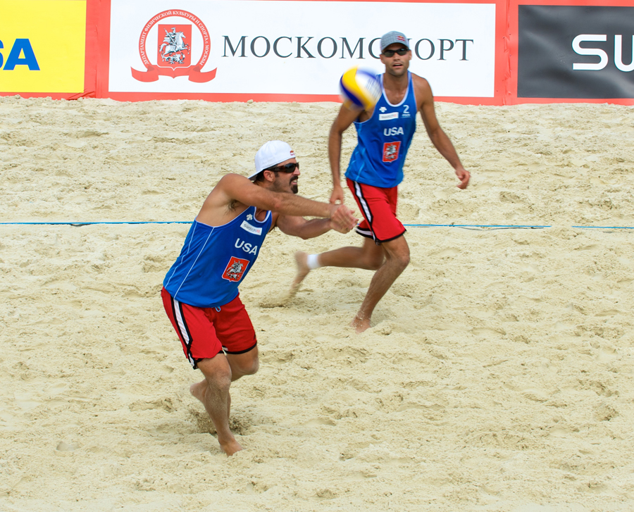 Grand Slam Moscow 2011